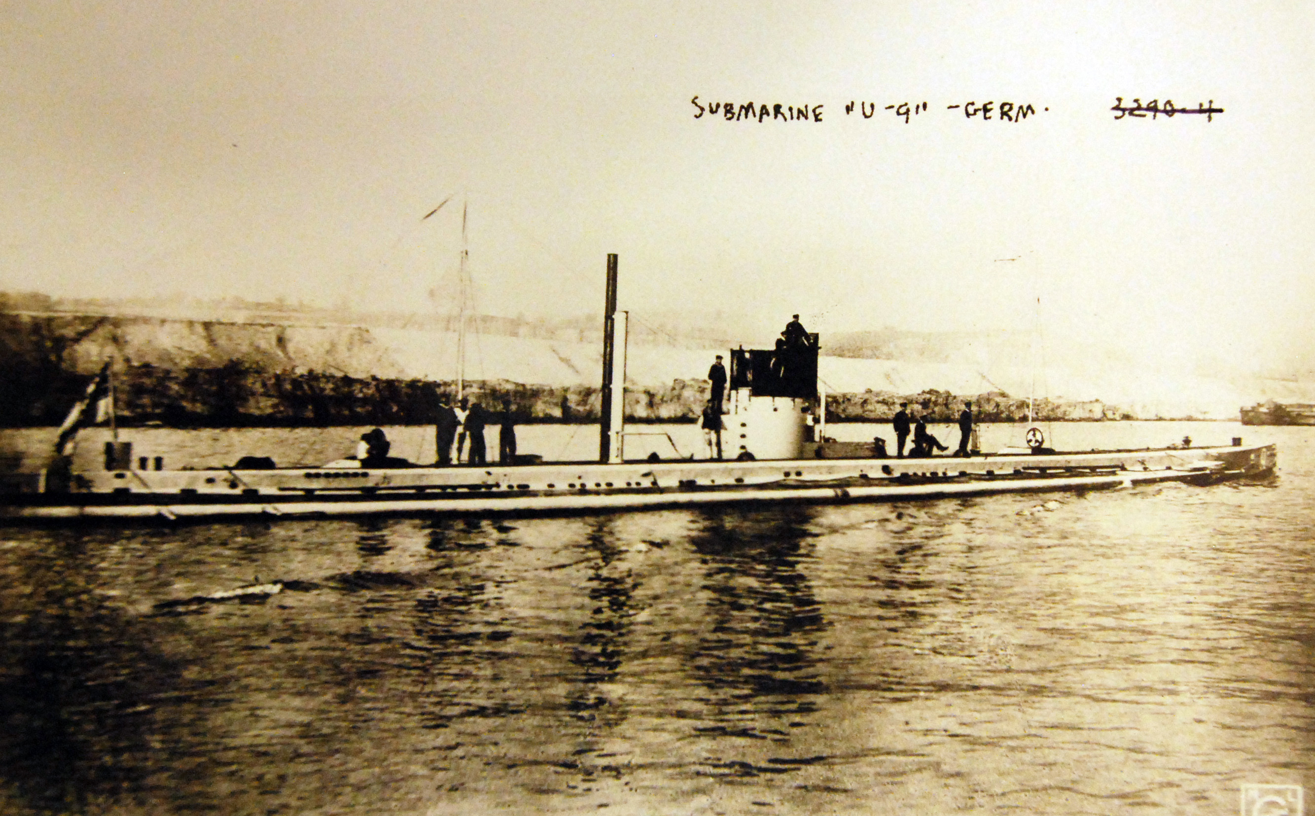 Lot-11274-1: WWI-German U-boats - German submarine, U-9. George C. Bain Collection. Courtesy of the Library of Congress. (2016/10/14).